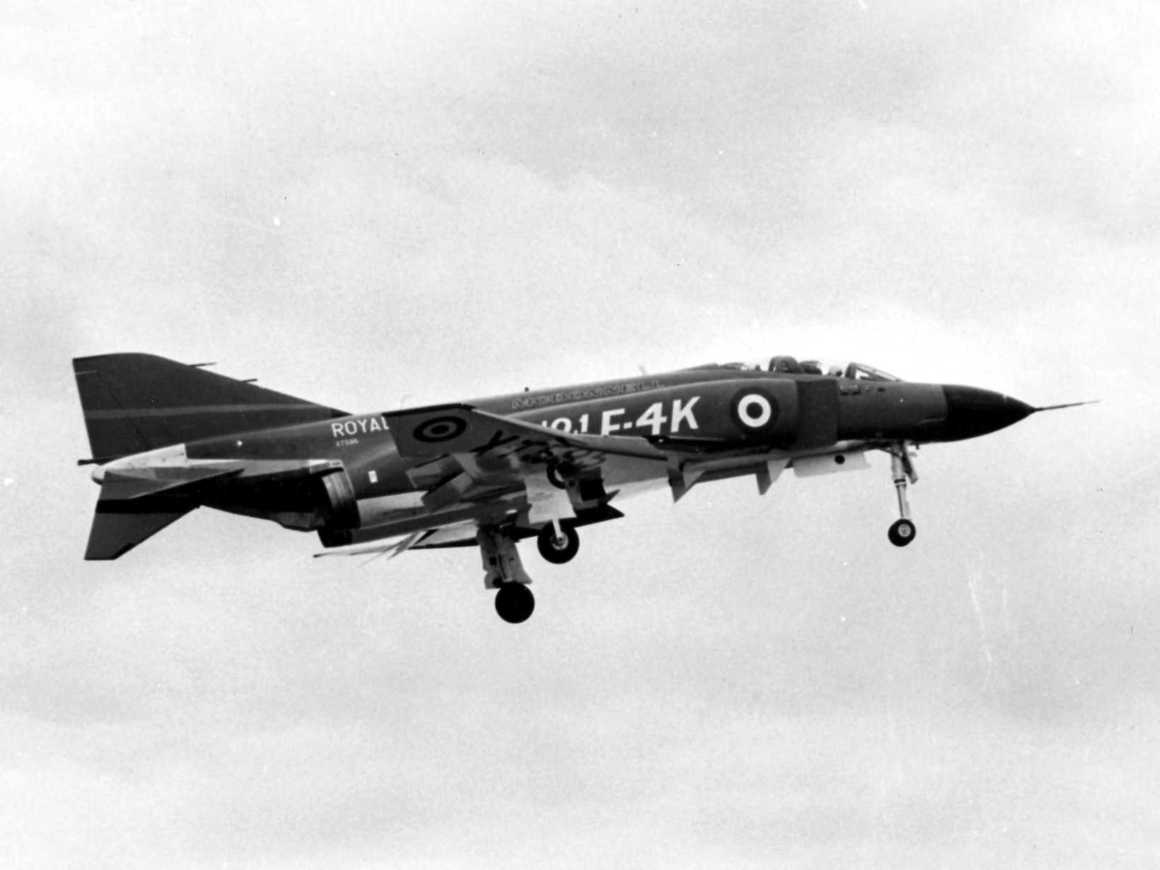 The first Royal Navy Phantom FG.1 ("F-4K", serial XT595) landing at the McDonnell Aircraft Corporation, St.Louis, Missouri (USA), on the day after its first flight.